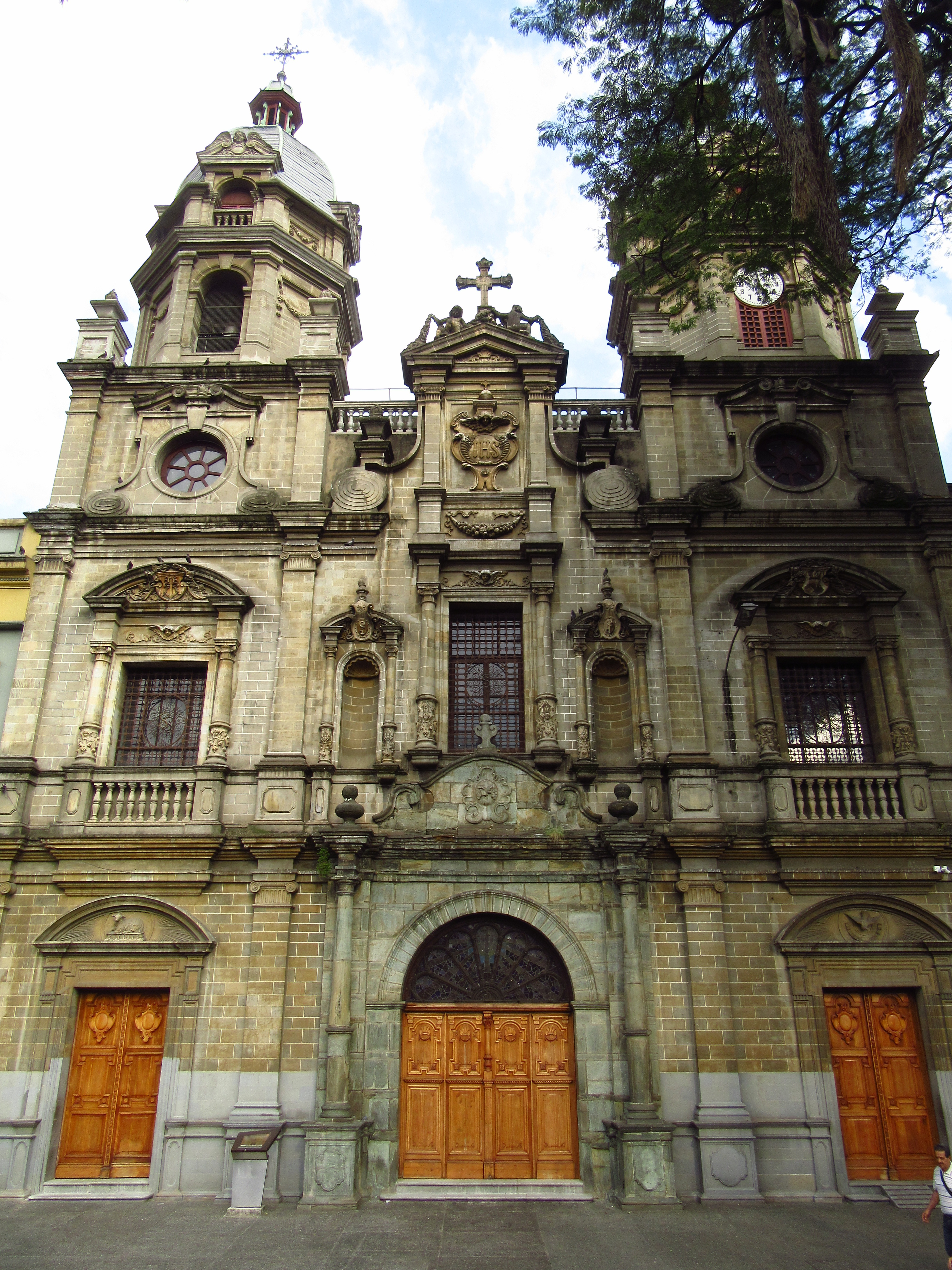 Medellín